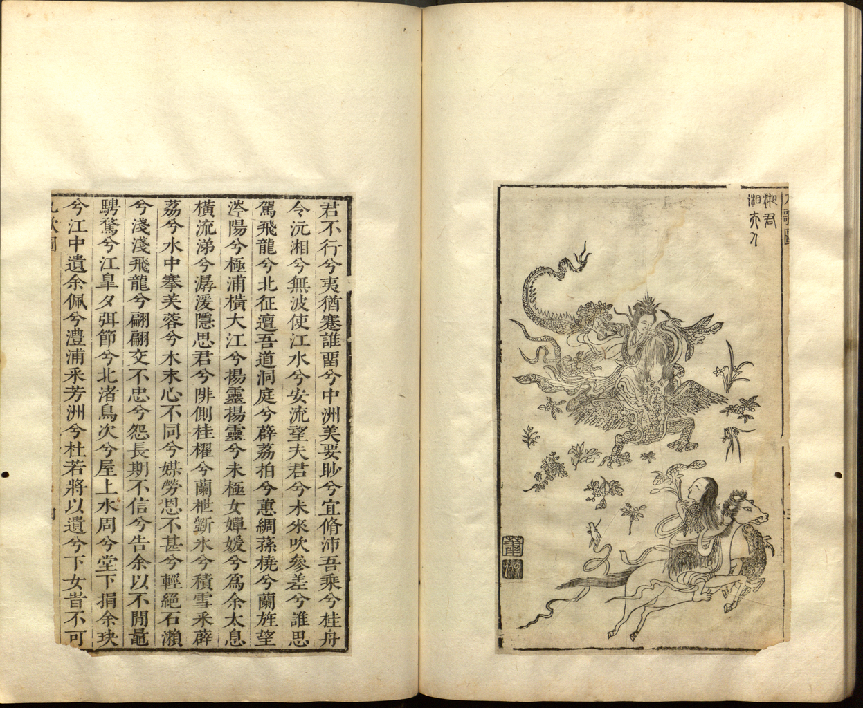 "Xiang River goddesses" (Xiang Jun), from Nine Songs section, poem number 3 0f 11, of annotated version of Chu Ci, published under title Li sao, author attribution as Qu Yuan (actual authors of the Nine Songs section unknown), and with illustrations by Xiao Yuncong.